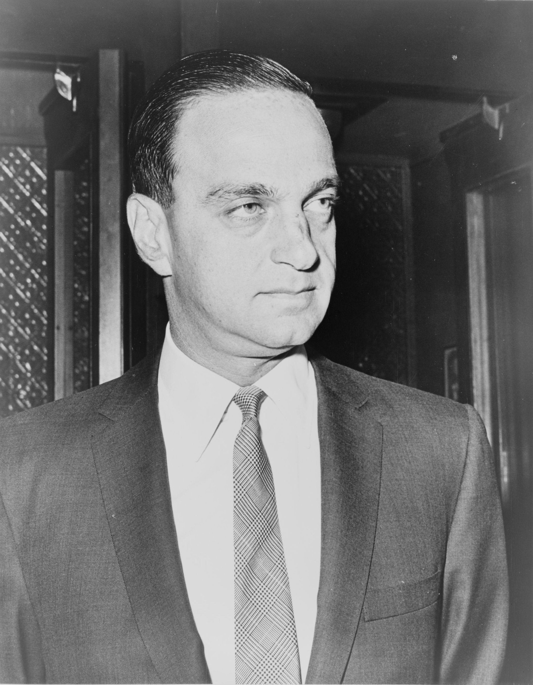 Roy M. Cohn, head-and-shoulders portrait, facing right / World Telegram & Sun photo by Herman Hiller.